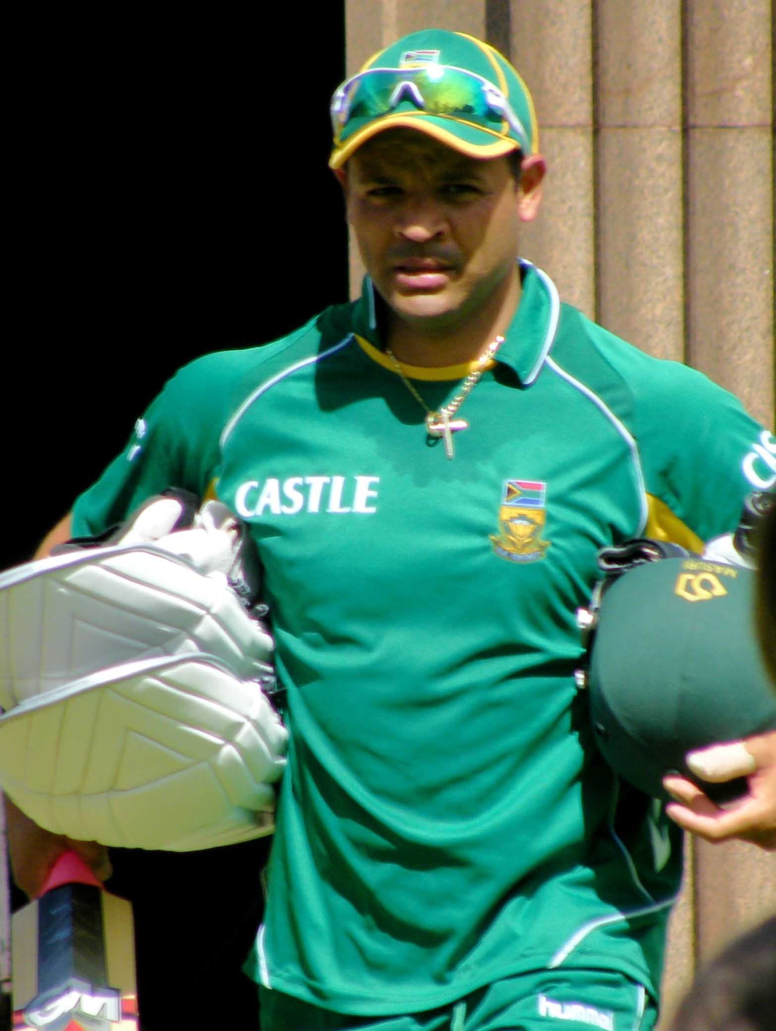 Ashwell Prince - New Years Day Training at the Sydney Cricket Ground 2009.